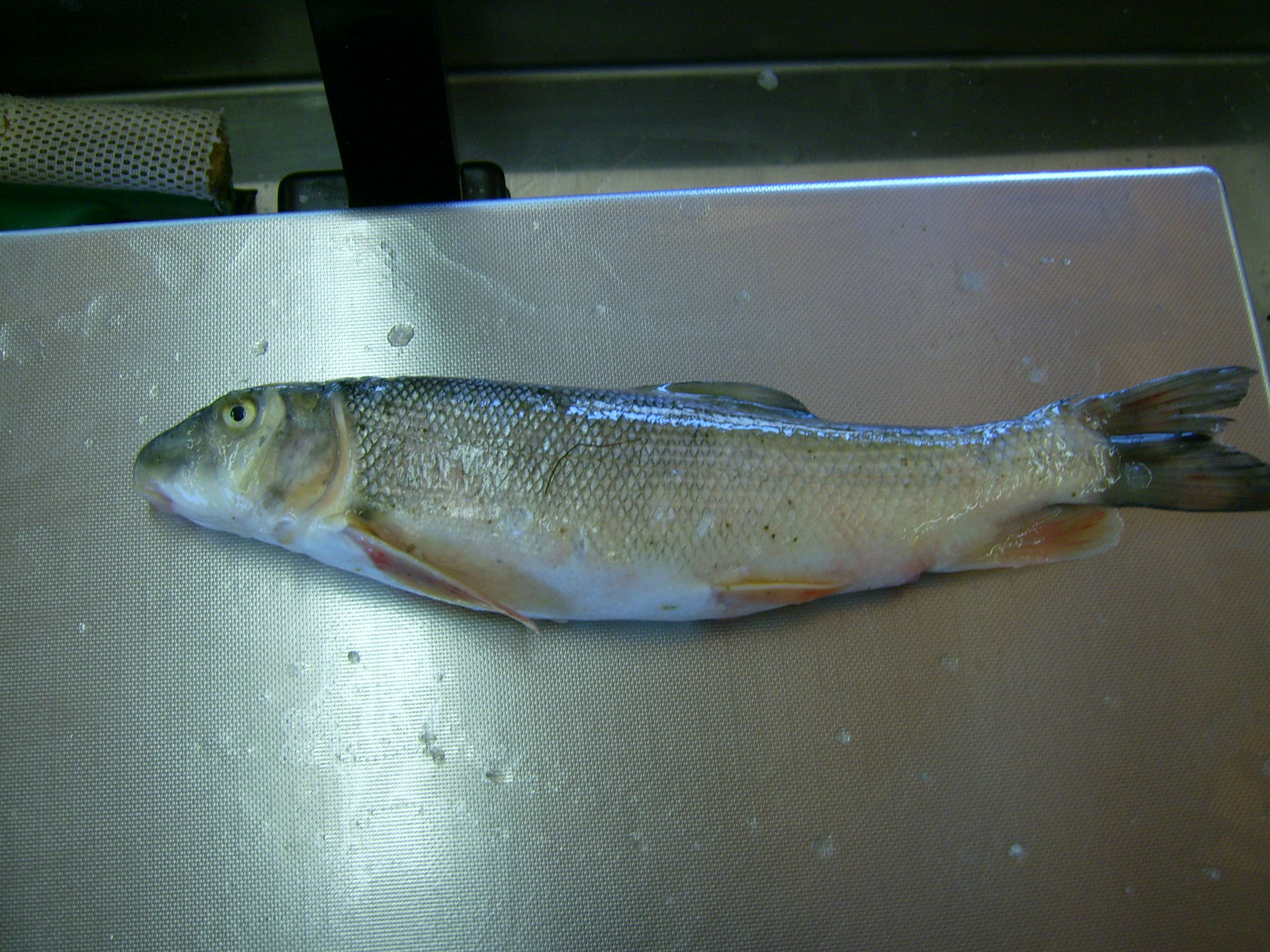 White sucker (Catostomus commersonii), Goulais Bay, Lake Superior